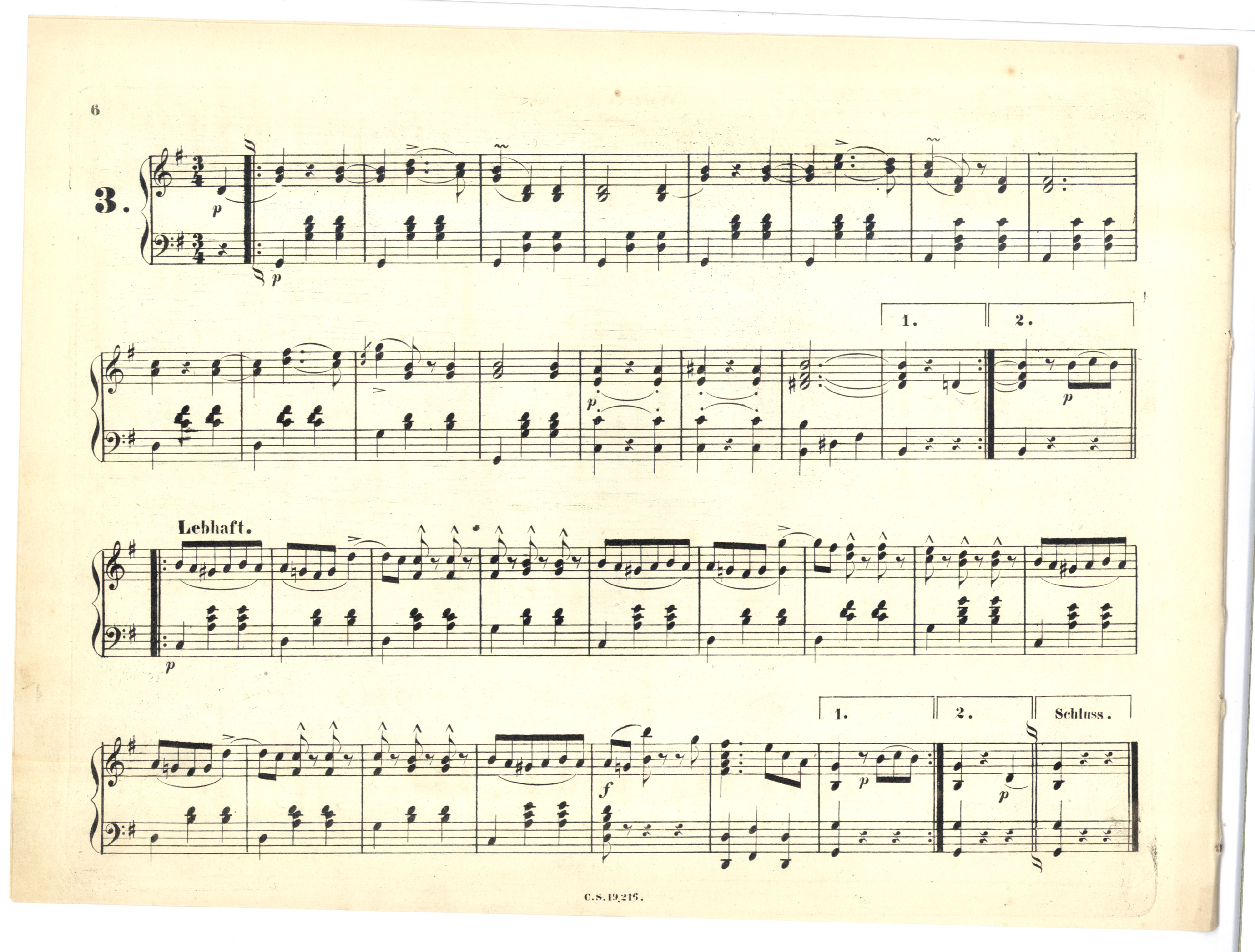 Johann Strauss II. The Blue Danube, 1st ed. by Carl Anton Spina